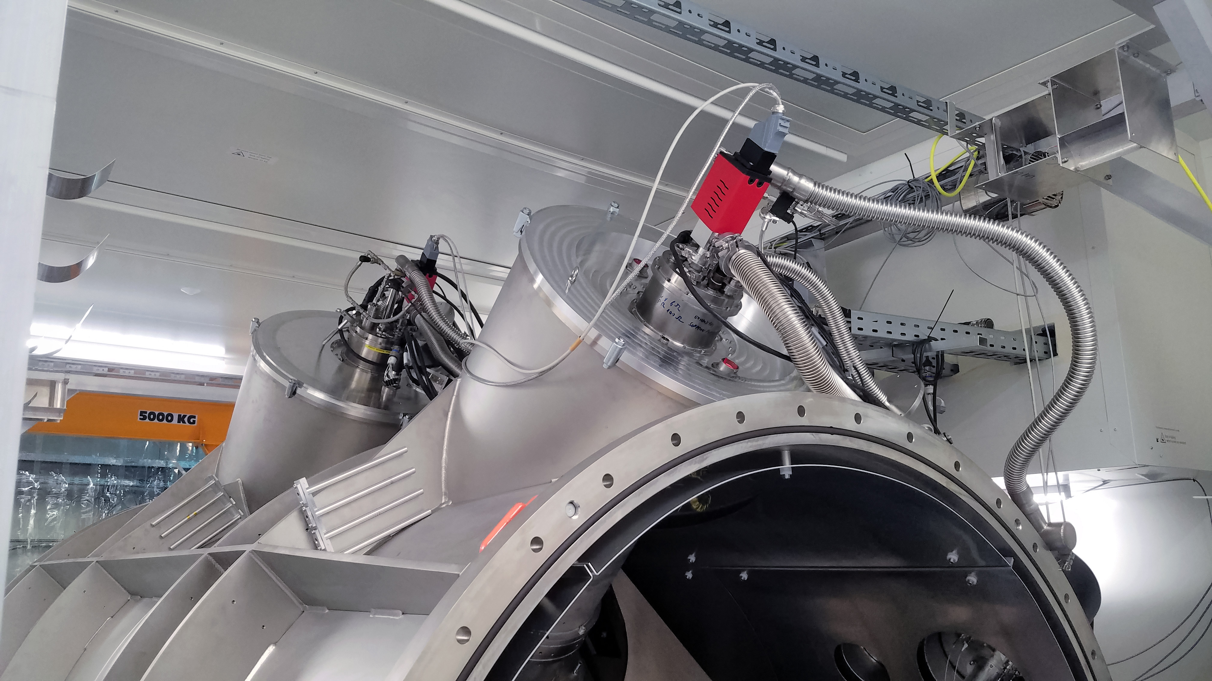 The Echelle SPectrograph for Rocky Exoplanet and Stable Spectroscopic Observations (ESPRESSO) successfully made its first observations in November 2017. Installed on ESO’s Very Large Telescope (VLT) in Chile, ESPRESSO will search for exoplanets with unprecedented precision by looking at the minuscule changes in the properties of light coming from their host stars. For the first time ever, an instrument will be able to sum up the light from all four VLT telescopes and achieve the light collecting power of a 16-metre telescope. This view shows the vacuum vessel where the extremely stable spectrographs are located.